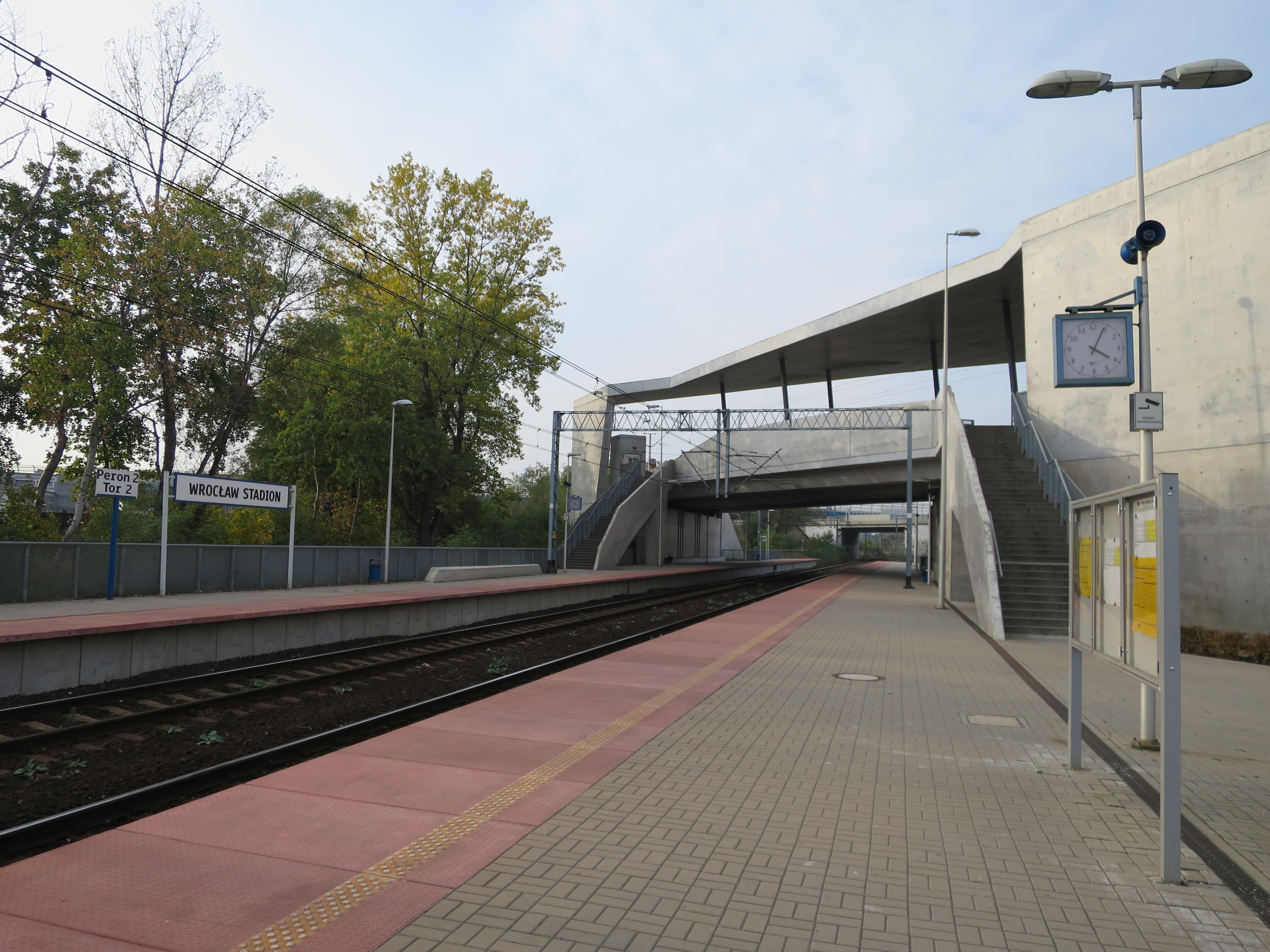 Wrocław Stadion This photo was taken during Railway Wikiexpedition 2015 set up by Wikimedia Polska Association in cooperation with Fundacja Grupy PKP.You can see all photographs in category Wikiekspedycja kolejowa 2015.